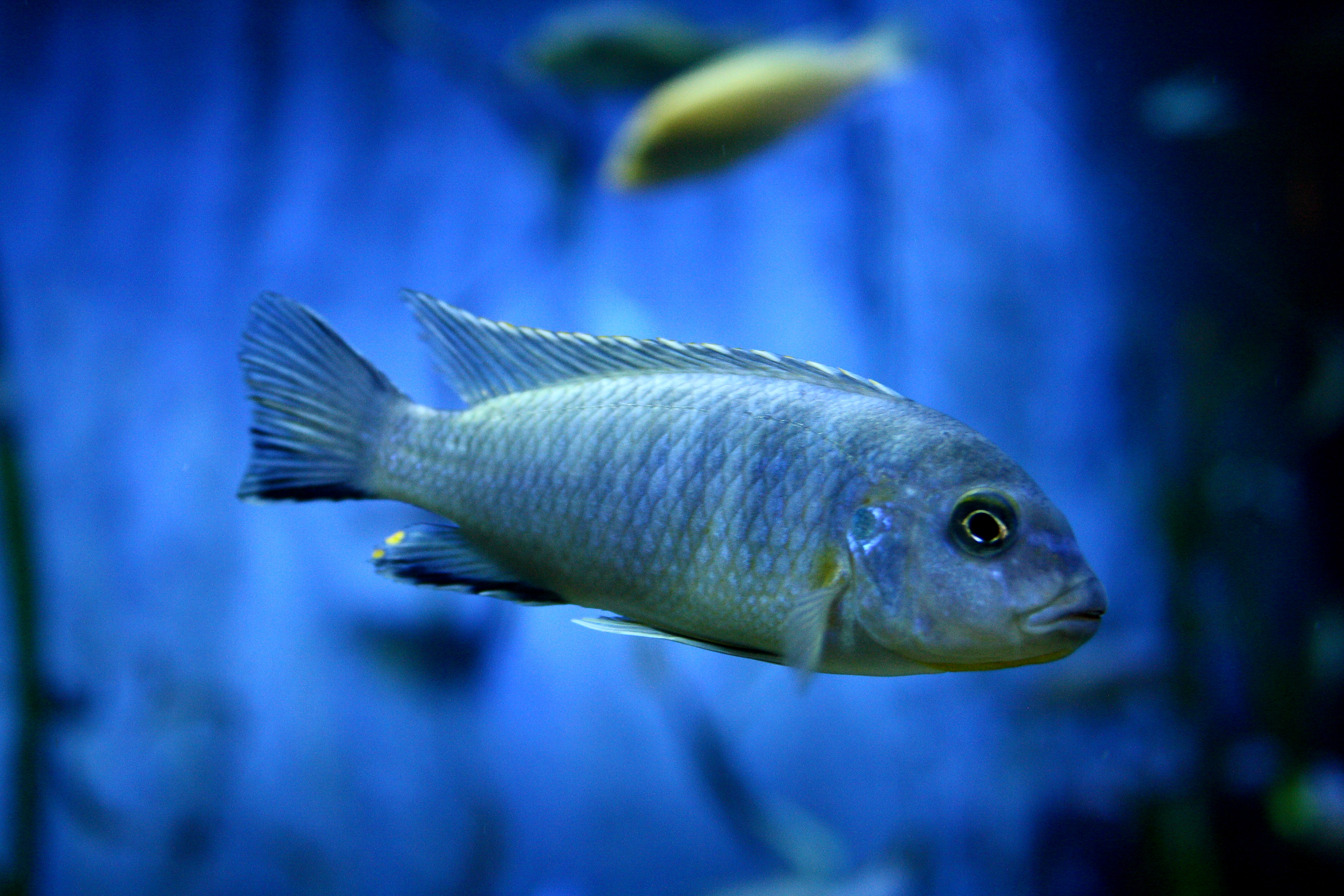 Zebra mbuna (Maylandia zebra) in ZOO Edinburgh